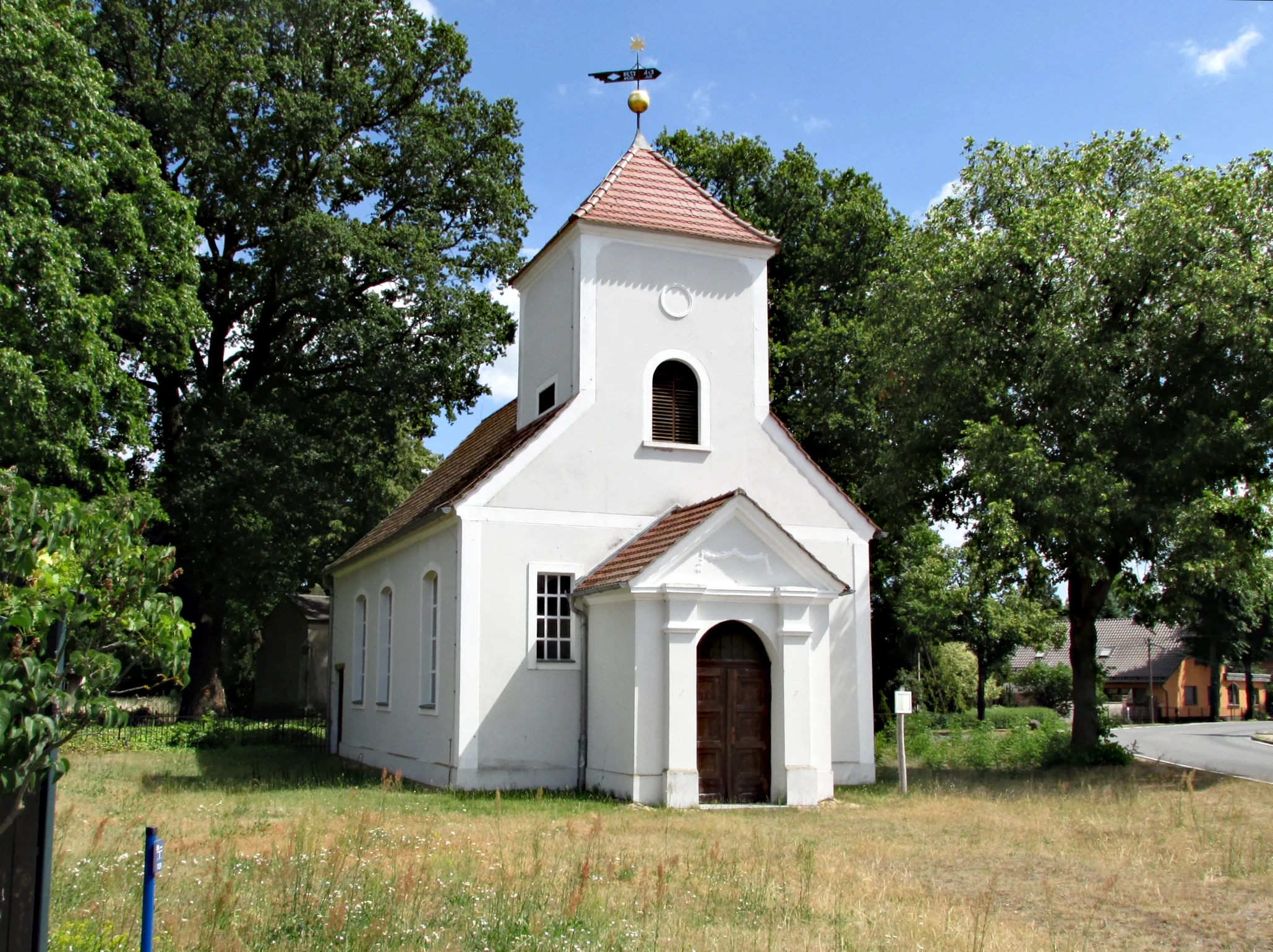 Lutheran church Dorfkirche Gulben at Gulbener Hauptstraße in Gulben. Established in 1623, though the current building dates to 1798.